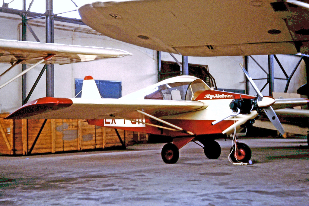 Stits SA-6B Flut-r-Bug LX-PUR at Luxembourg (Findel) Airport in 1965